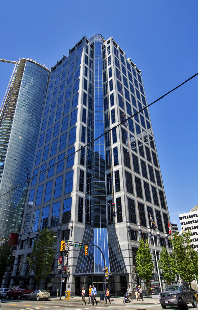 FortisBC Centre, previously known as Terasen Centre, in Vancouver.